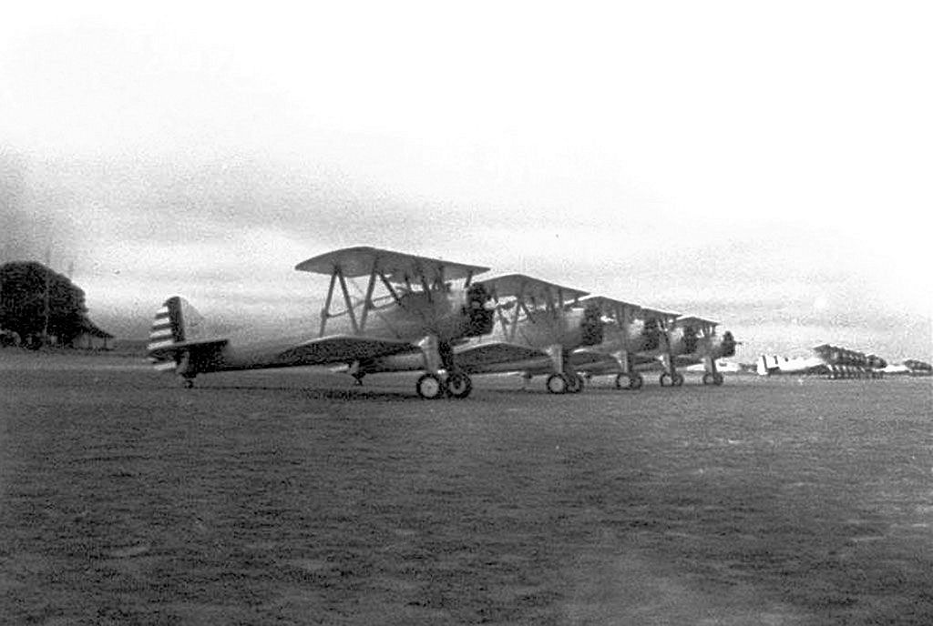 Albany Army Airfield - PT-17 Stearmans on Flight Line